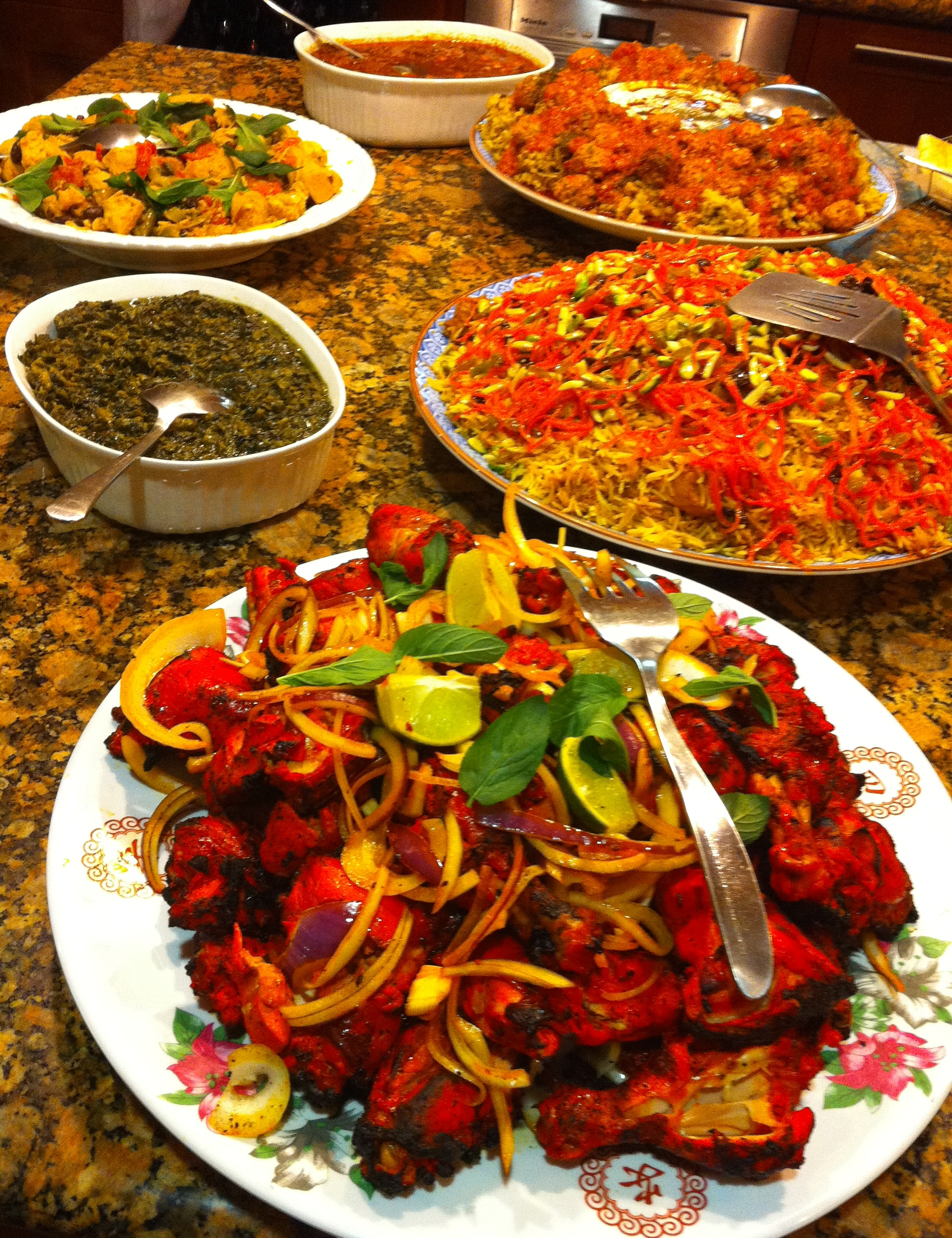 Afghan food